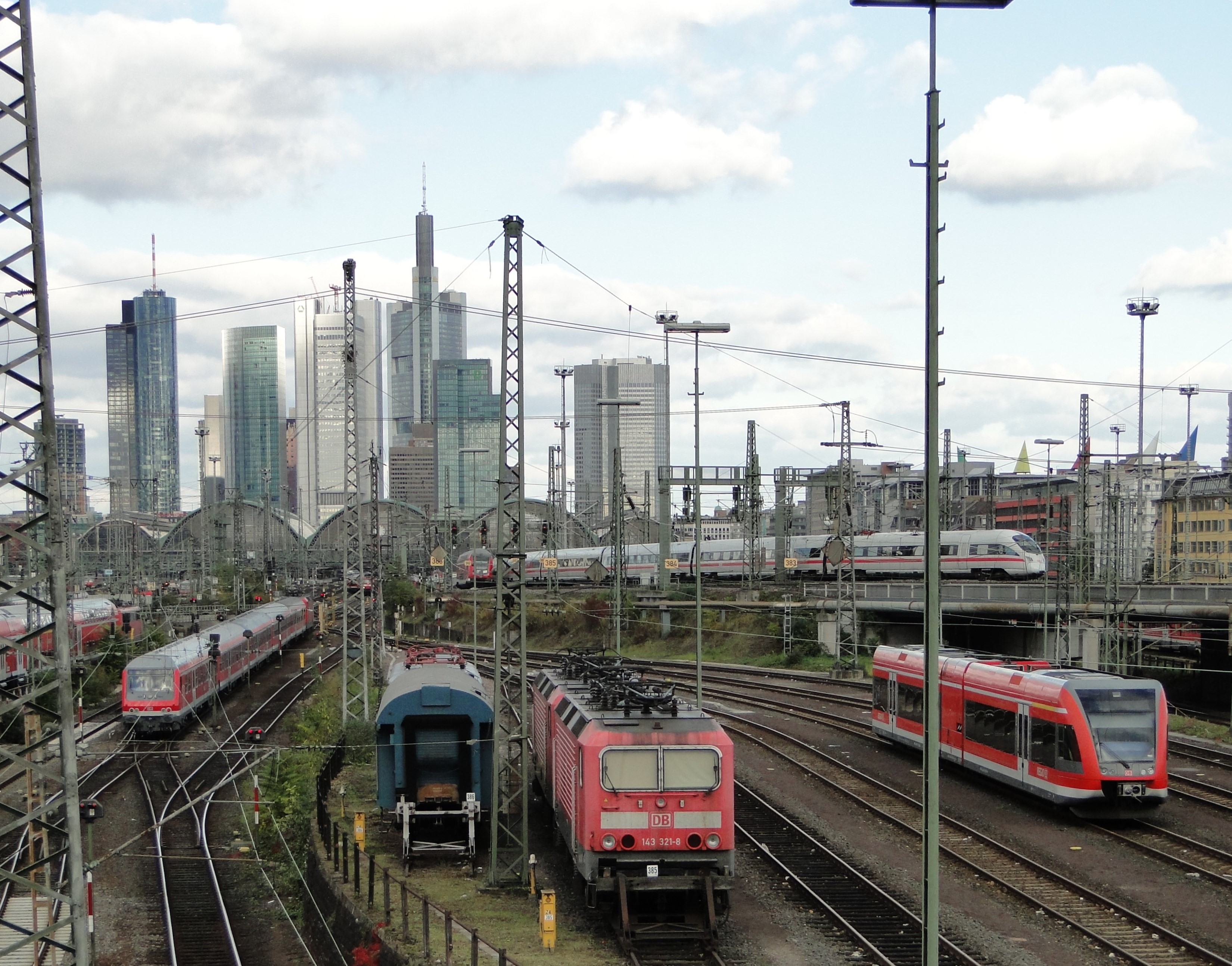 Rear of central station in Frankfurt am Main, seen from "Camberger Bruecke".